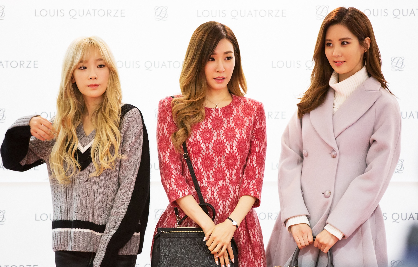 TaeTiSeo at a fan signing event for Louis Quatorze on November 27, 2015.